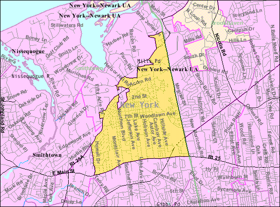 U.S. Census 2000 reference map for St. James